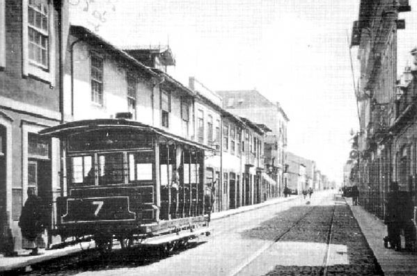 A horse tram in Póvoa de Varzim, Portugal